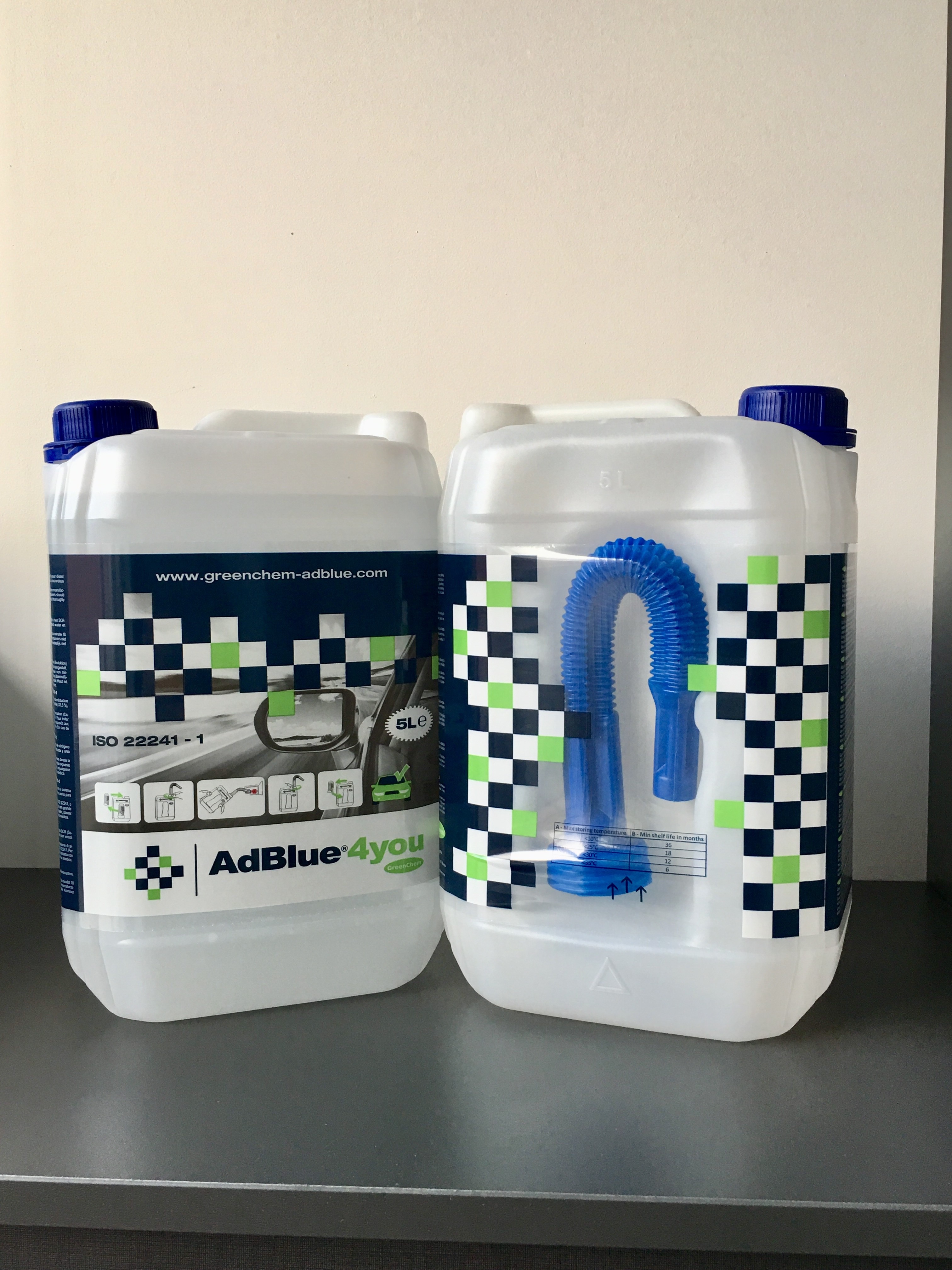 Diesel exhaust fluid packed in a 5L canister